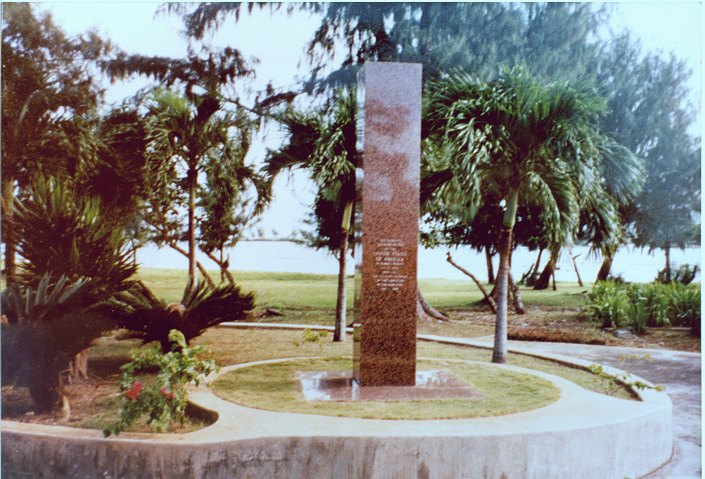 The Saipan American Memorial is located near the beach overlooking Tanapag Harbor on the Island of Saipan, Commonwealth of the Mariana Islands. It is a part of the American Memorial Park commemorating the Americans and Chamorro who died during the liberation of the Mariana Islands during World War II. Specifically, the memorial honors the 24,000 American marines and soldiers who died recapturing the islands of Saipan, Tinian and Guam during the period June 15, 1944 to August 11, 1944.